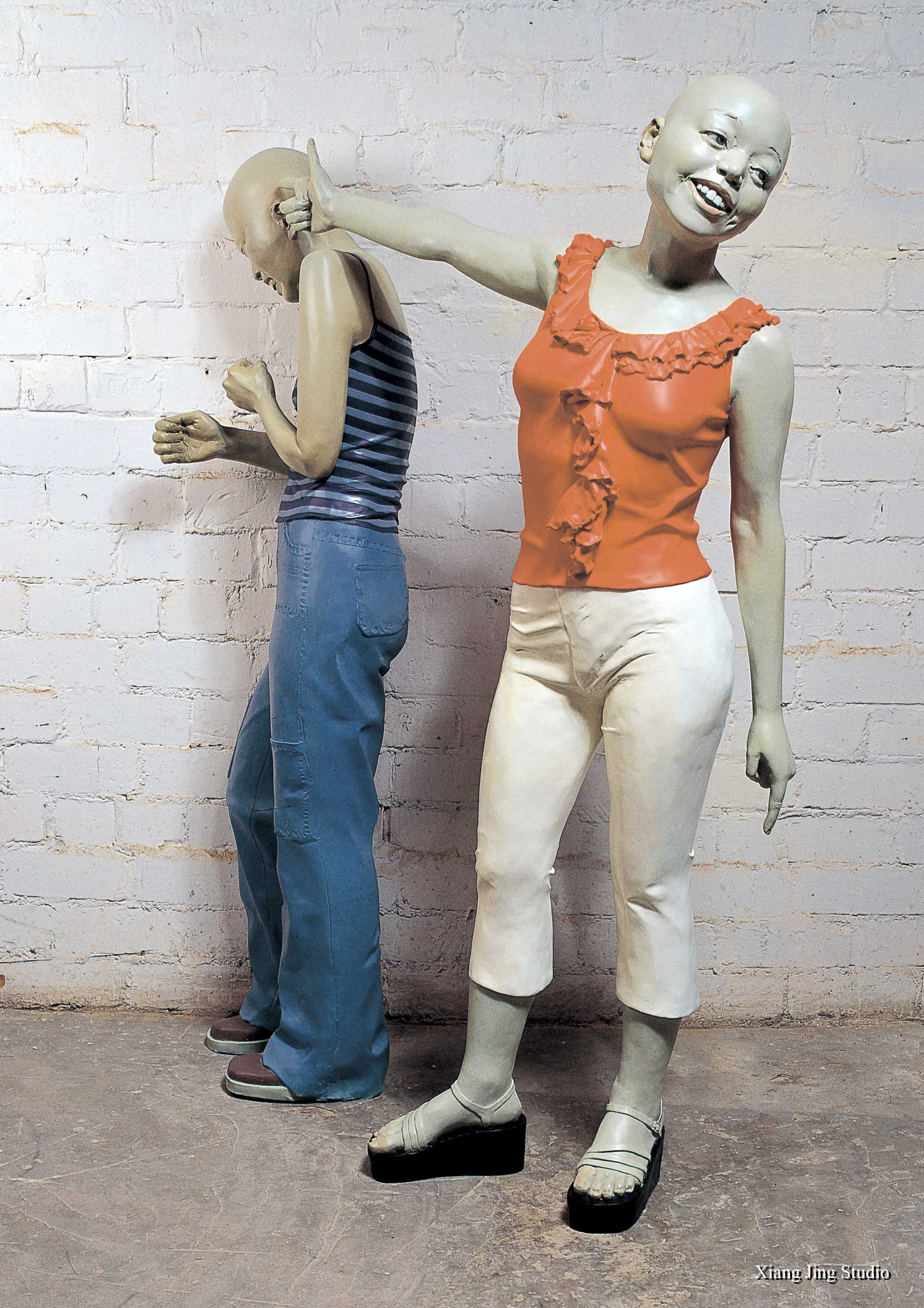 Bang! belongs to Xiang Jing's "Mirror Image" series of works